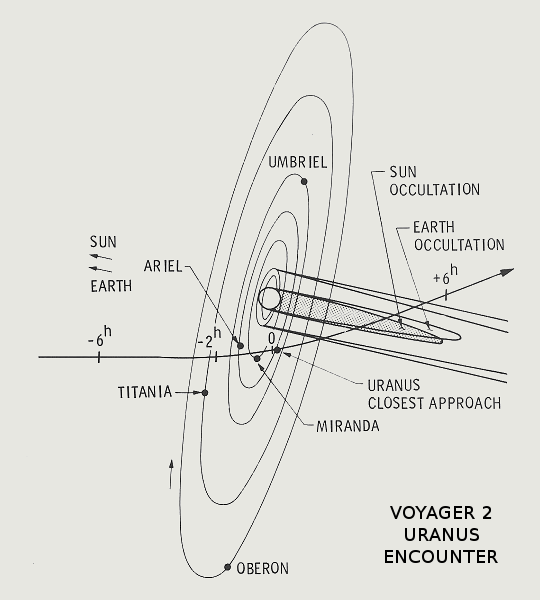 Voyager 2 trajectory in Uranus System, January 24, 1986.